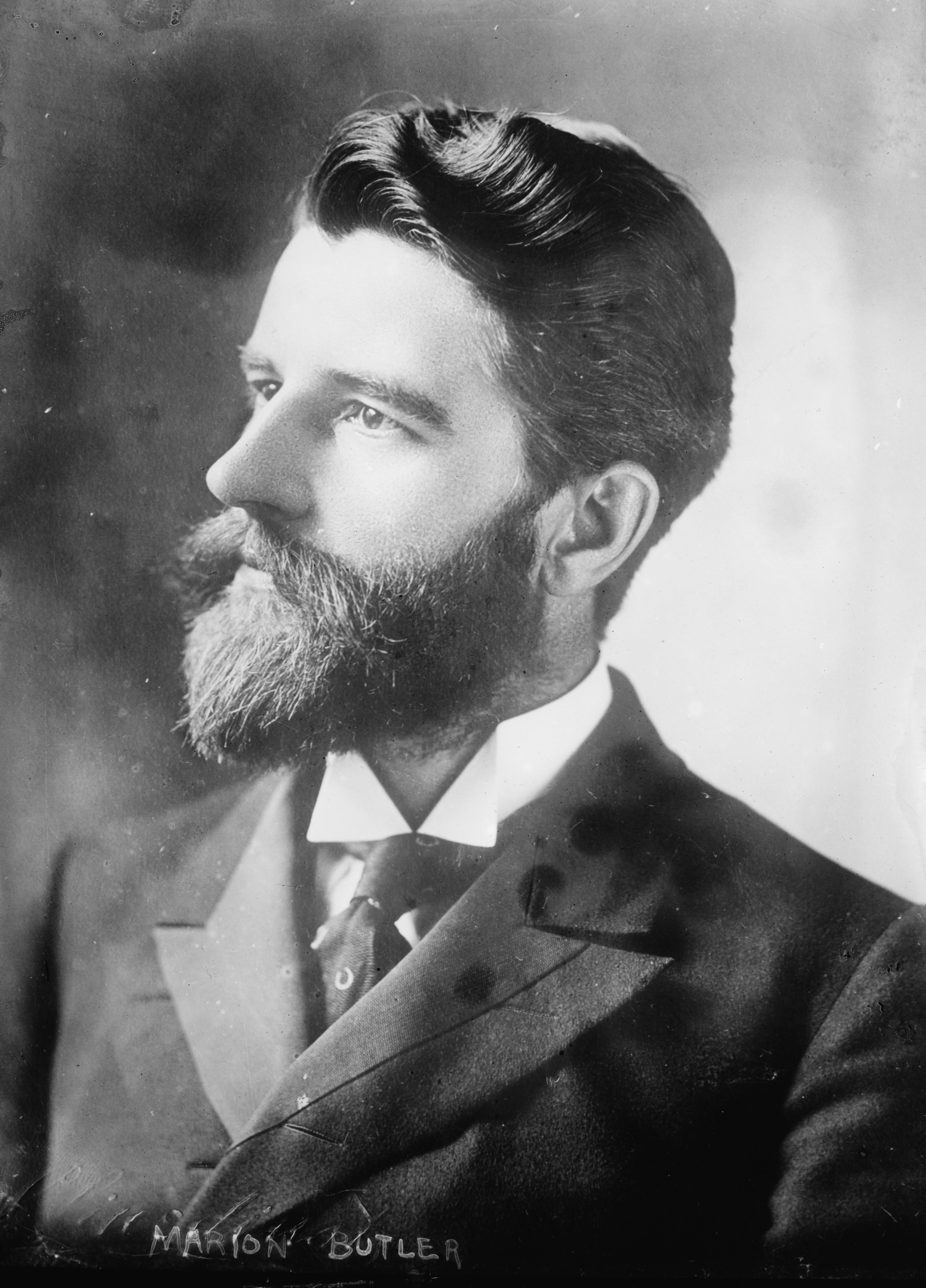 Portrait of Marion Butler (1863 - 1938)